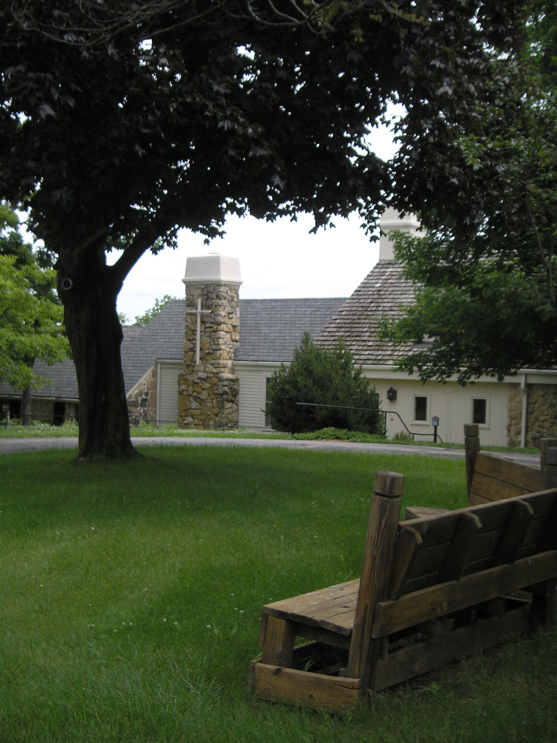 Our Lady of the Mississippi Abbey is a Cistercian monastery of women religious in Dubuque, Iowa